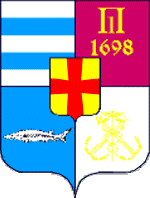 Taganrog (Rostov oblast), coat of arms (1808)